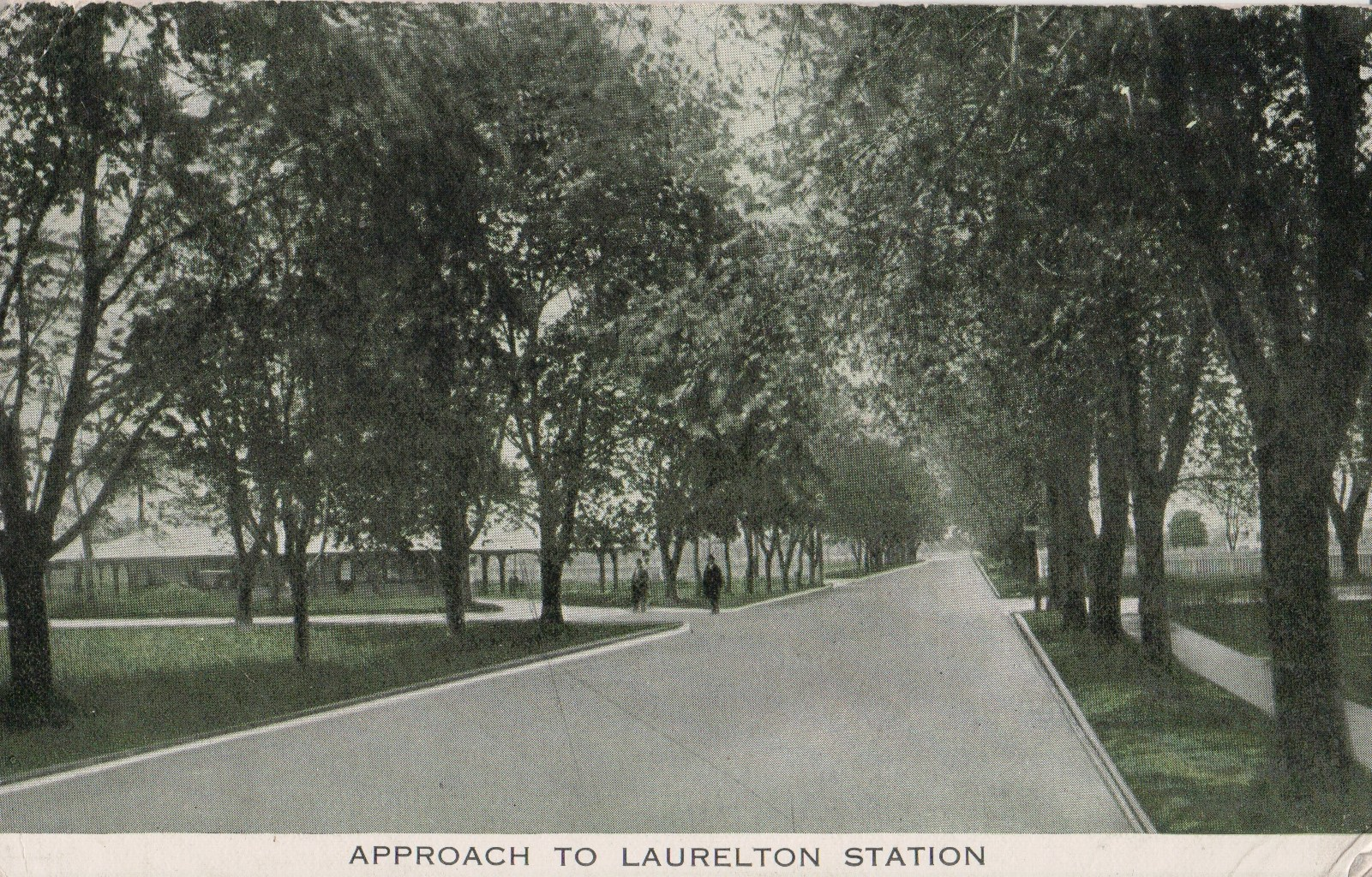 This image is from a postcard sent in March 1908 and sets the location of the station at the time it was built. Scan from